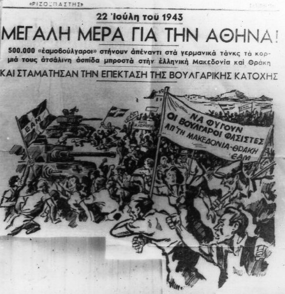 Graphic with motive of the demonstration in Athens (EAM, 1943) This media file is produced by Wikipedian in Residence in Category:Wikipedian in Residence at DARM in 2016.